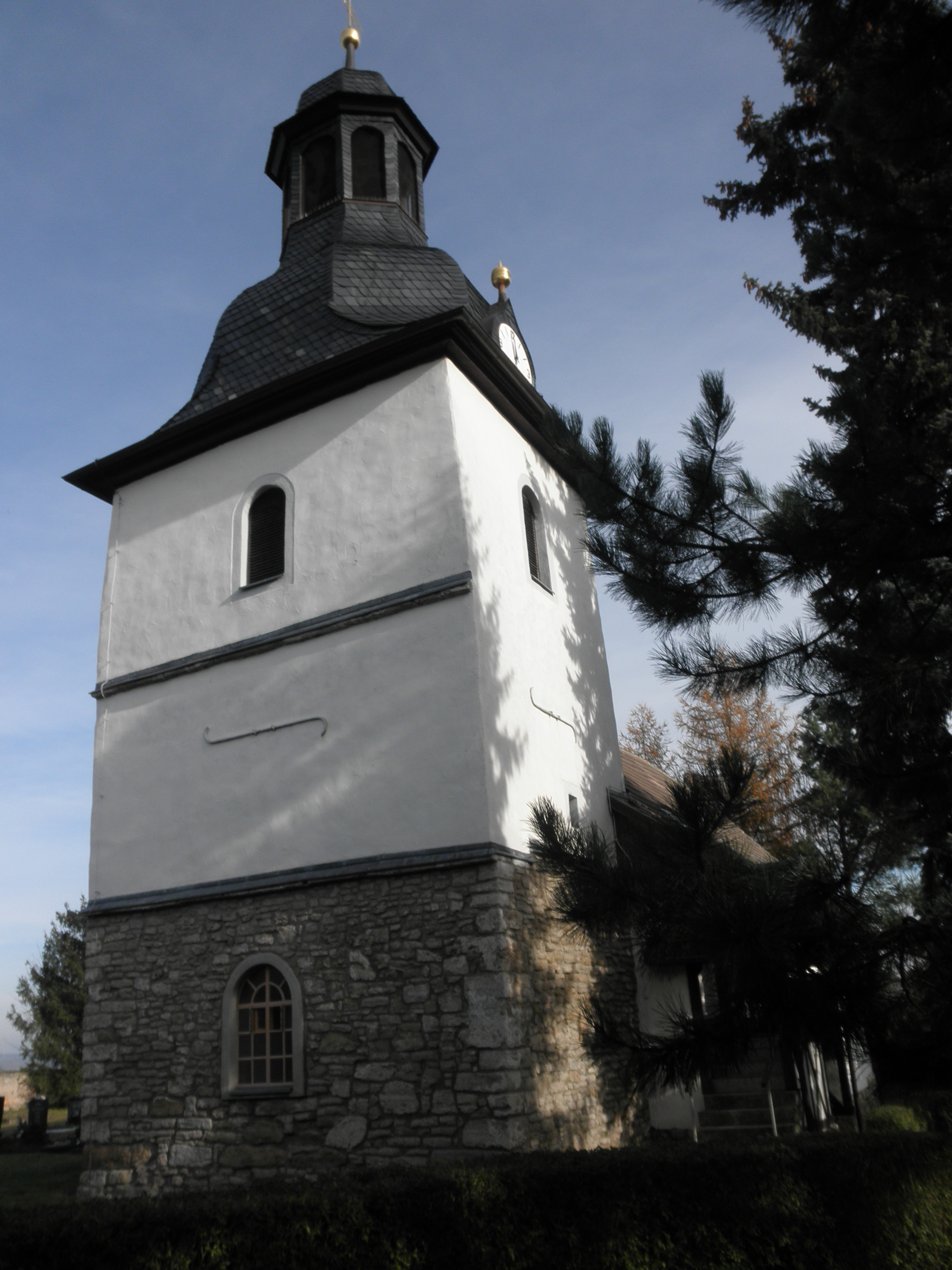 Church in Rohnstedt (Großenehrich) in Thuringia